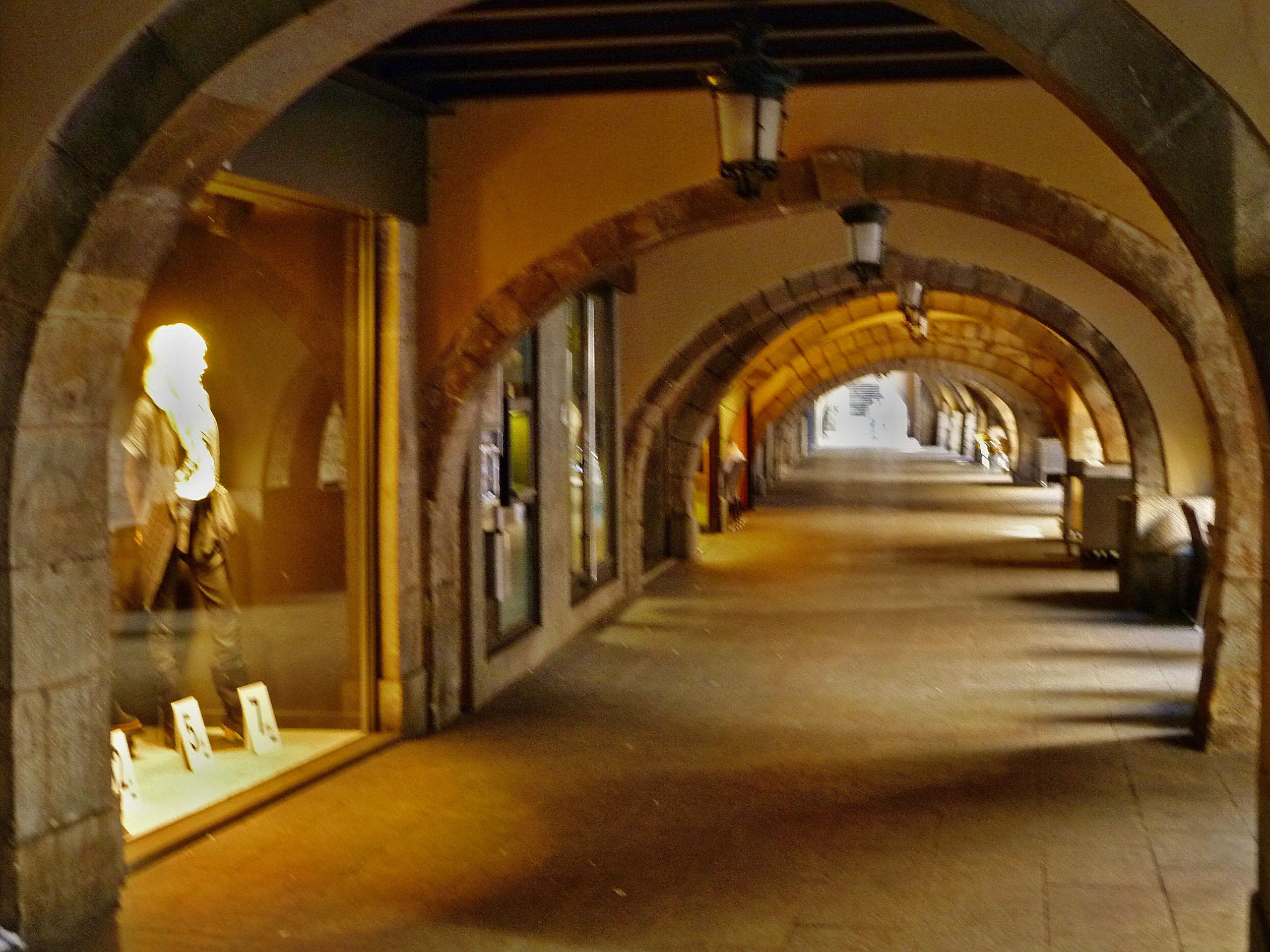 A covered shopping street in Girona, Spain